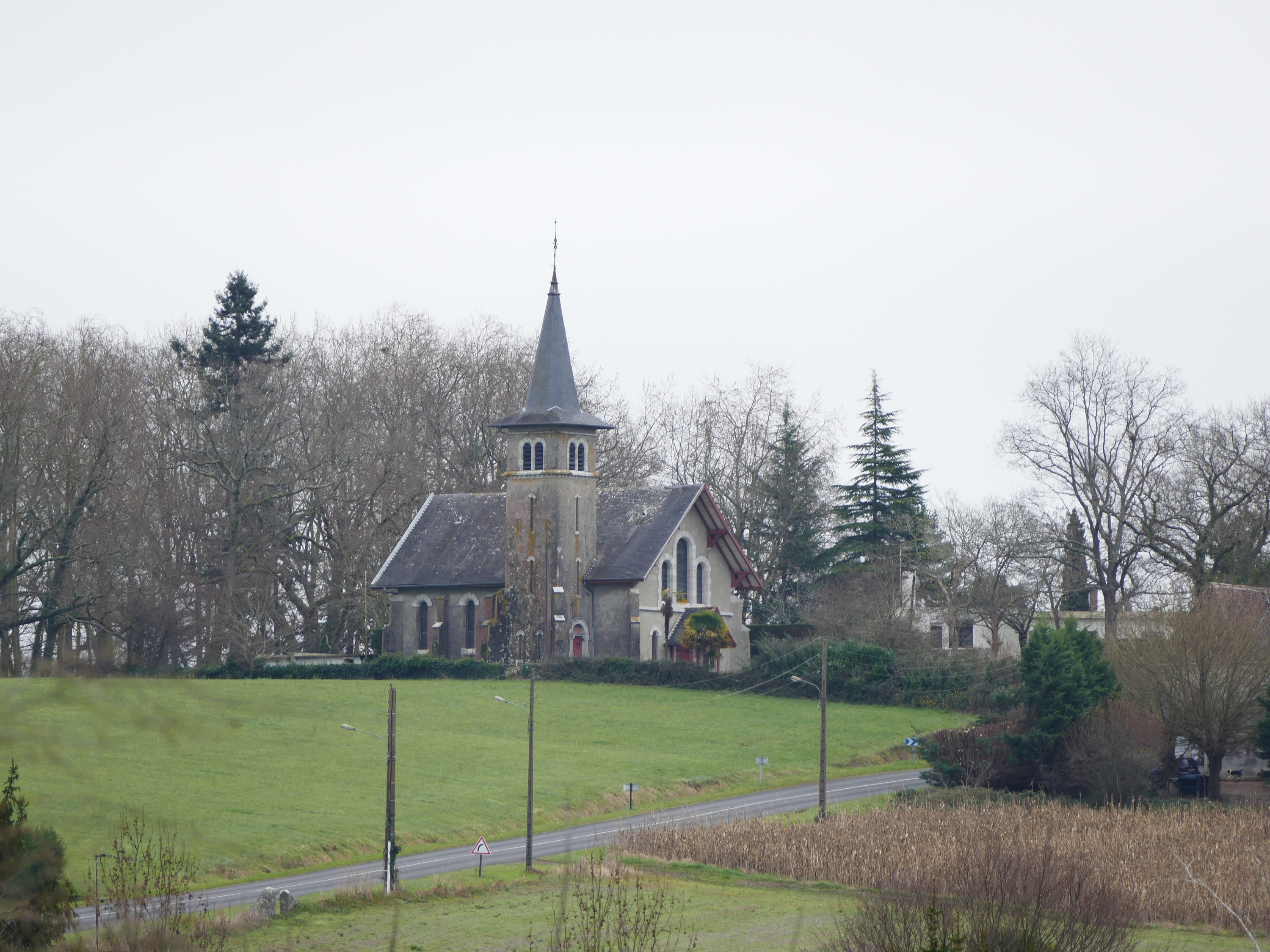 Protestant church in Baigts-de-Béarn (Béarn, Nouvelle-Aquitaine, France).